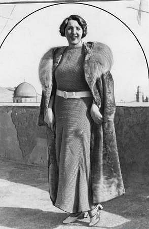 Hanka Ordonówna (Polish actress, dancer, singer) in Jerusalem (on the terrace of "Dom Polski"). In the background of the picture there are visible: dome and minaret of mosque "Omara".